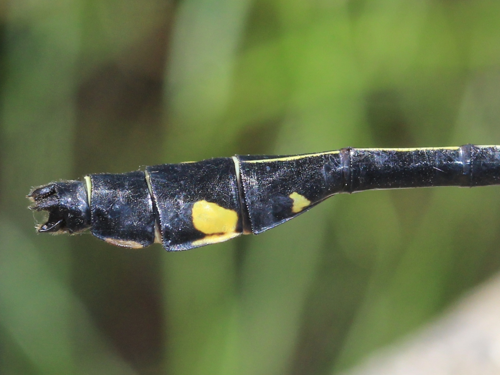 Male of Anisogomphus maacki in Mount Gozaisho, Komomo, Mie prefecture, Japan.